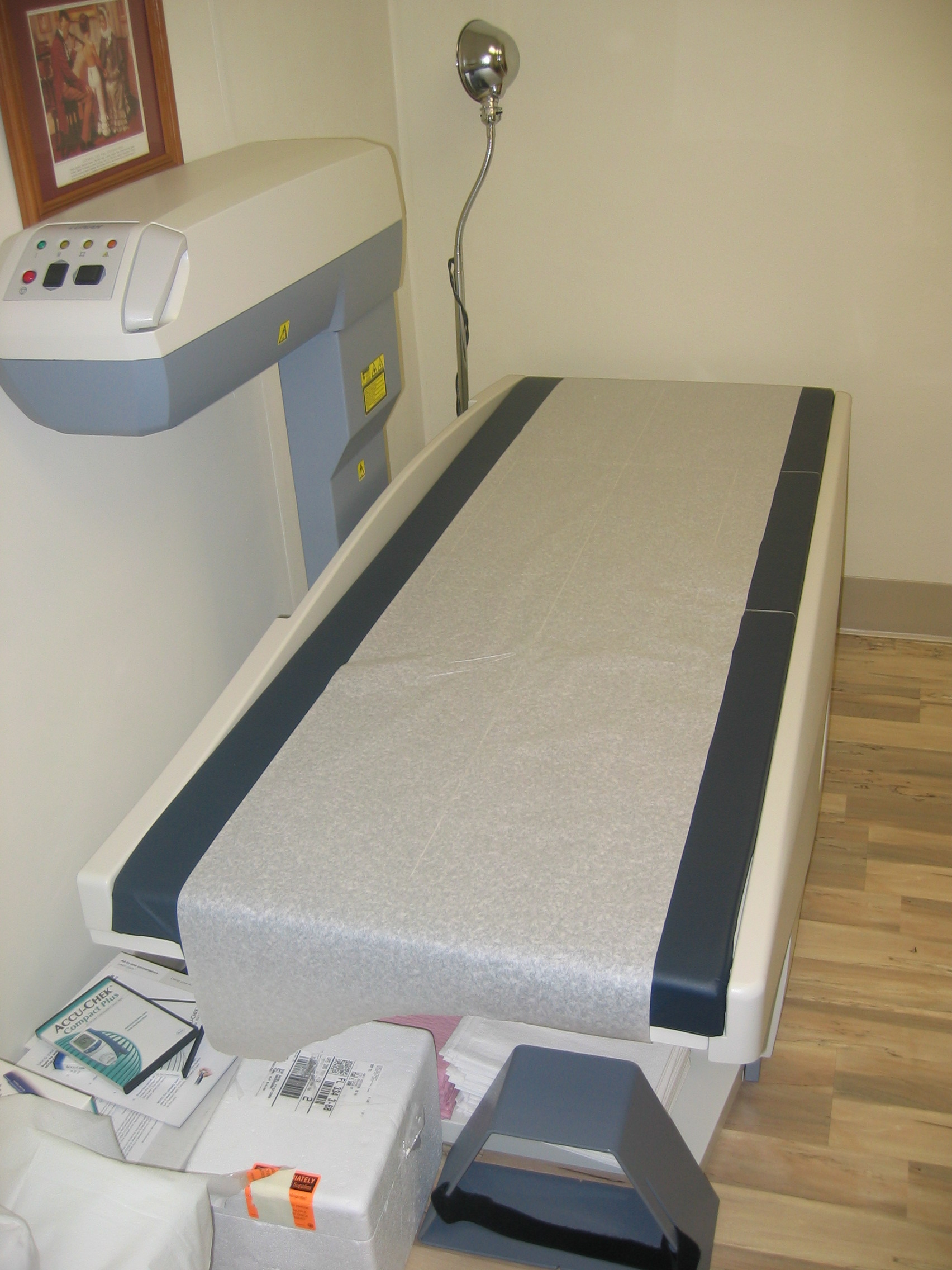 A machine to measure bone density to check for osteoporosis in the elderly and other vulnerable subjects.